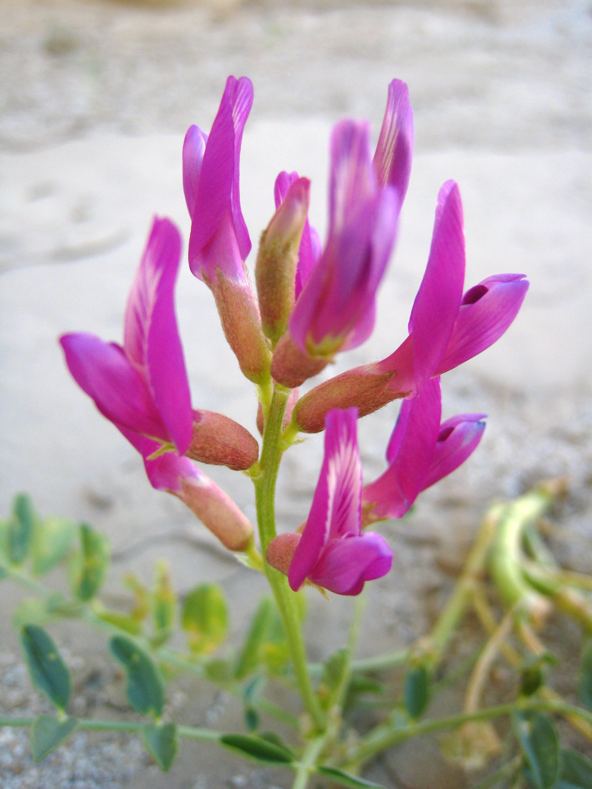 Astragalus lentiginosus var. borreganus — Borrego Milkvetch. In Anza Borrego Desert State Park, southern California.